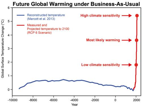 global average temperatures during the last 10.000 years during which the mankinds cultural developement took place and the expected rise in temperatures in a "Business as usual" scenario